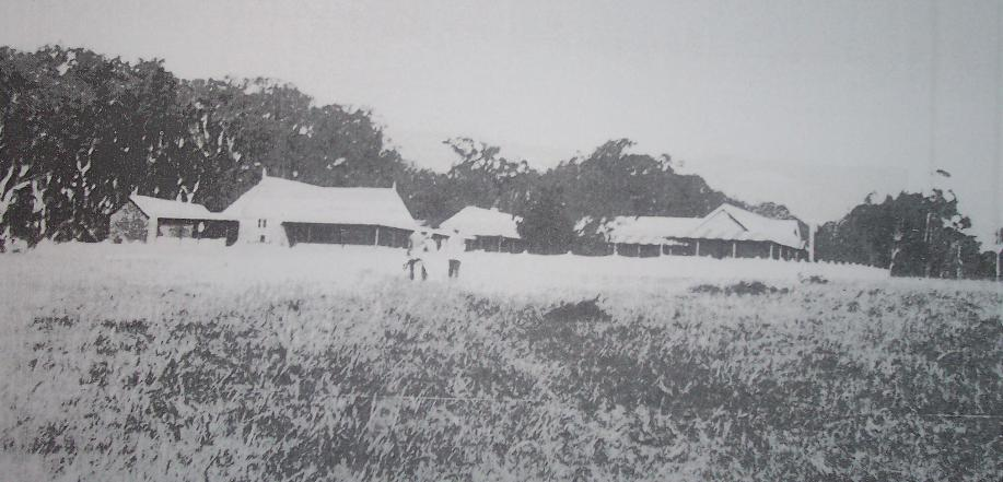 Bayview Guest House at The Entrance taken around 1900.